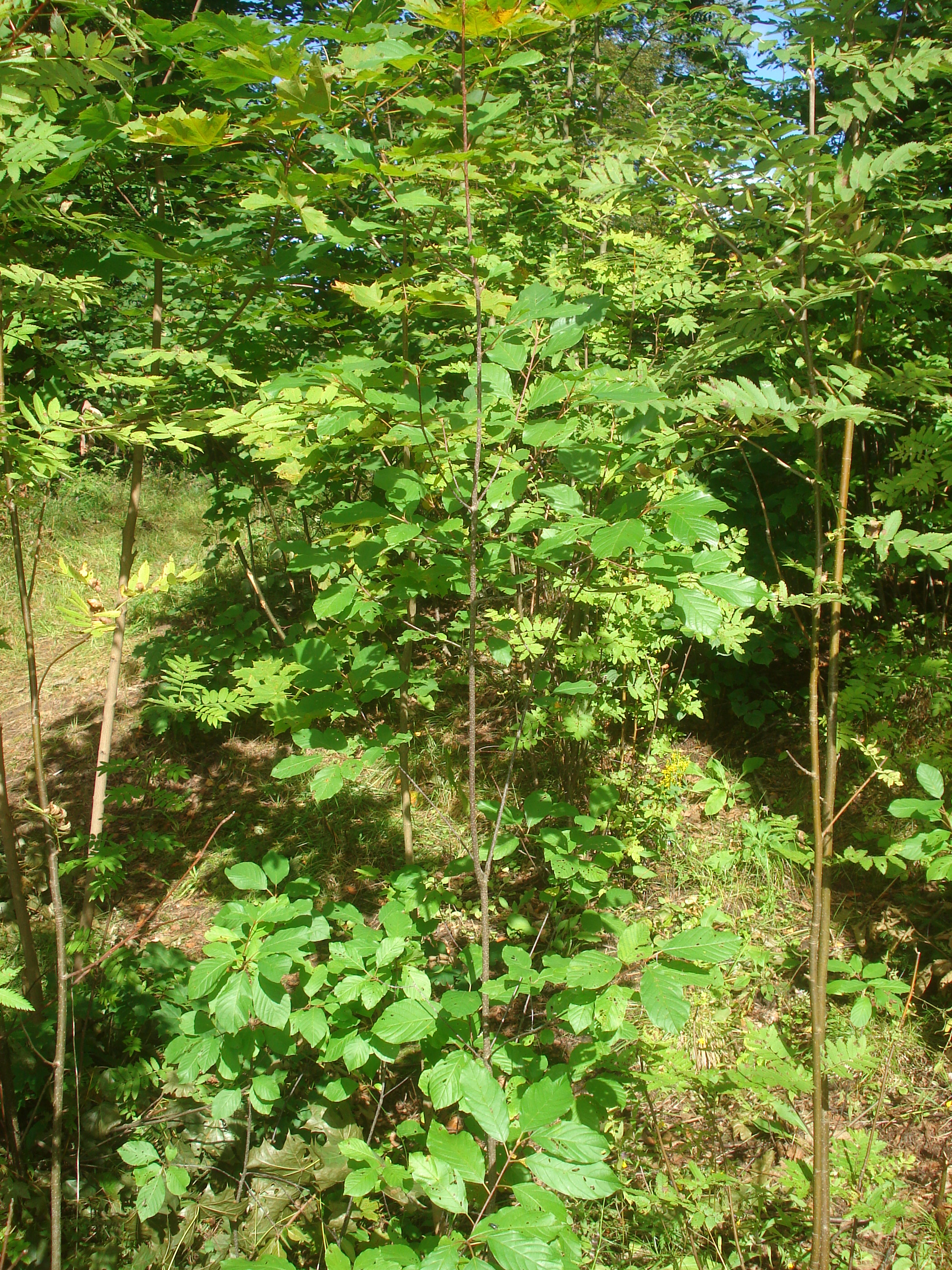 Frangula alnus. Found in Audriņi near Rezekne city, Latvia